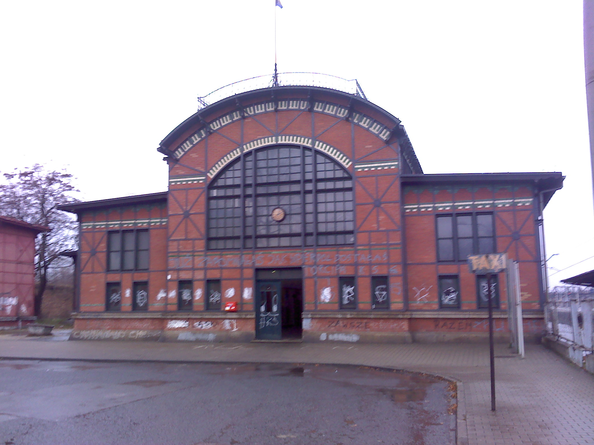 Ruda Slaska Chebzie train station